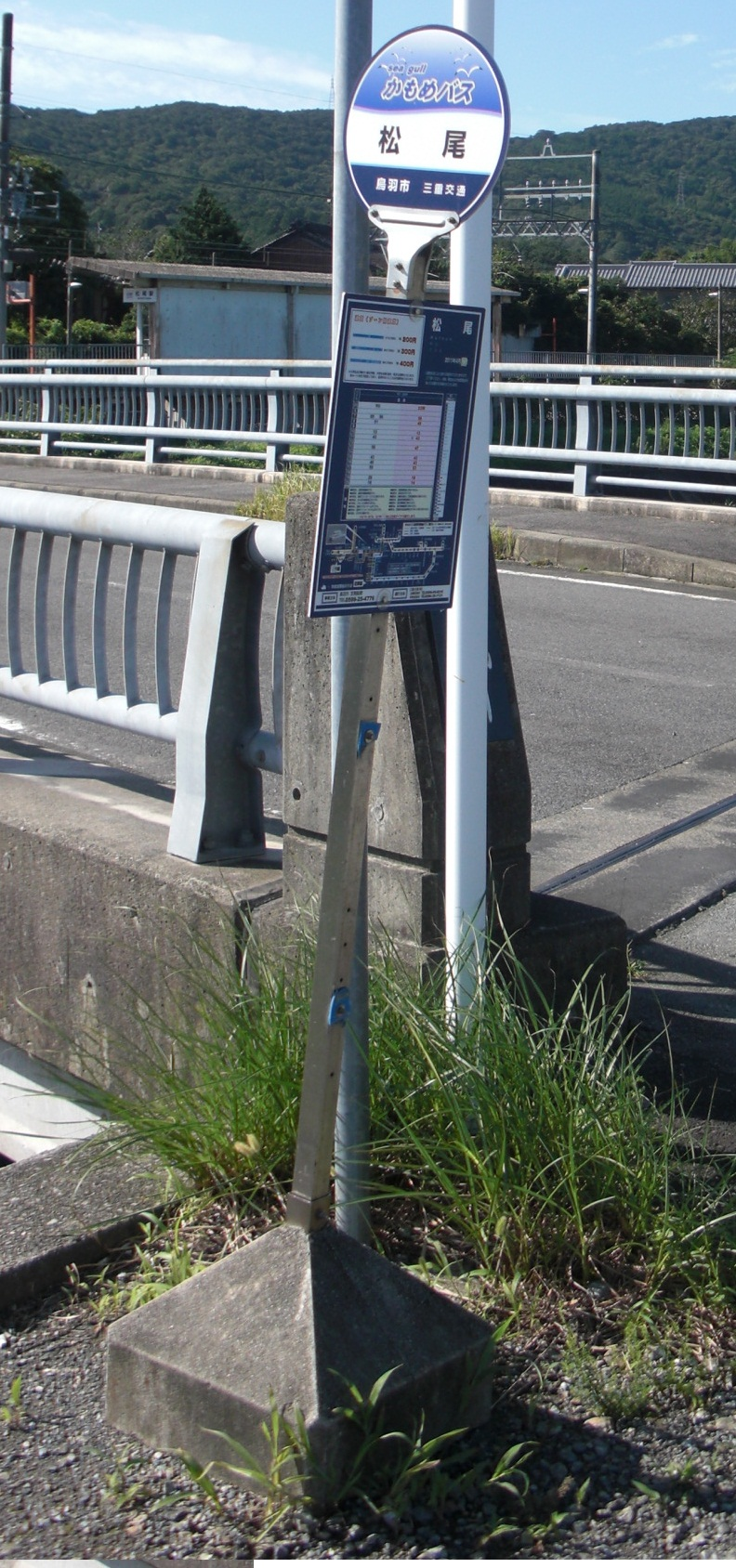 Matsuo Bus Stop for Toba City Kamome Bus in Toba City, Mie Prefecture, Japan